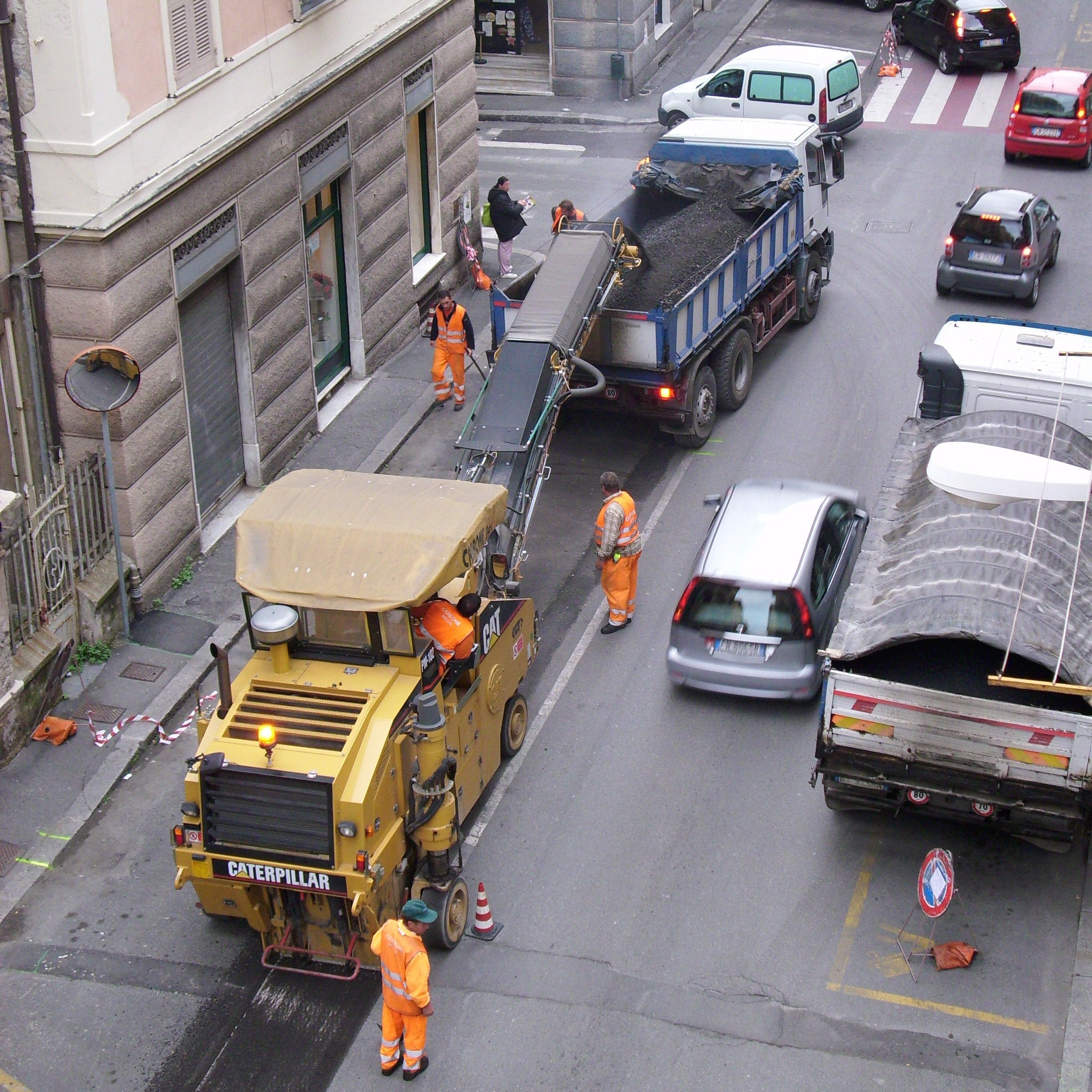 A machine tearing up one street at Sestri Ponente (Genoa)